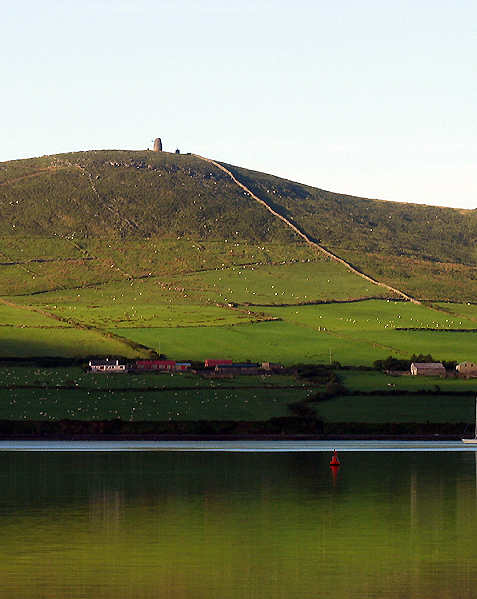 Tower. The tower on the top of this 184m hill near Reenberg point, is built of natural stone and was constructed as a famine relief work in 1847. It was built at the same time as Eask Tower on Burnham Hill, as a visual aid to guide ships to the harbour which is not visible from Dingle Bay.